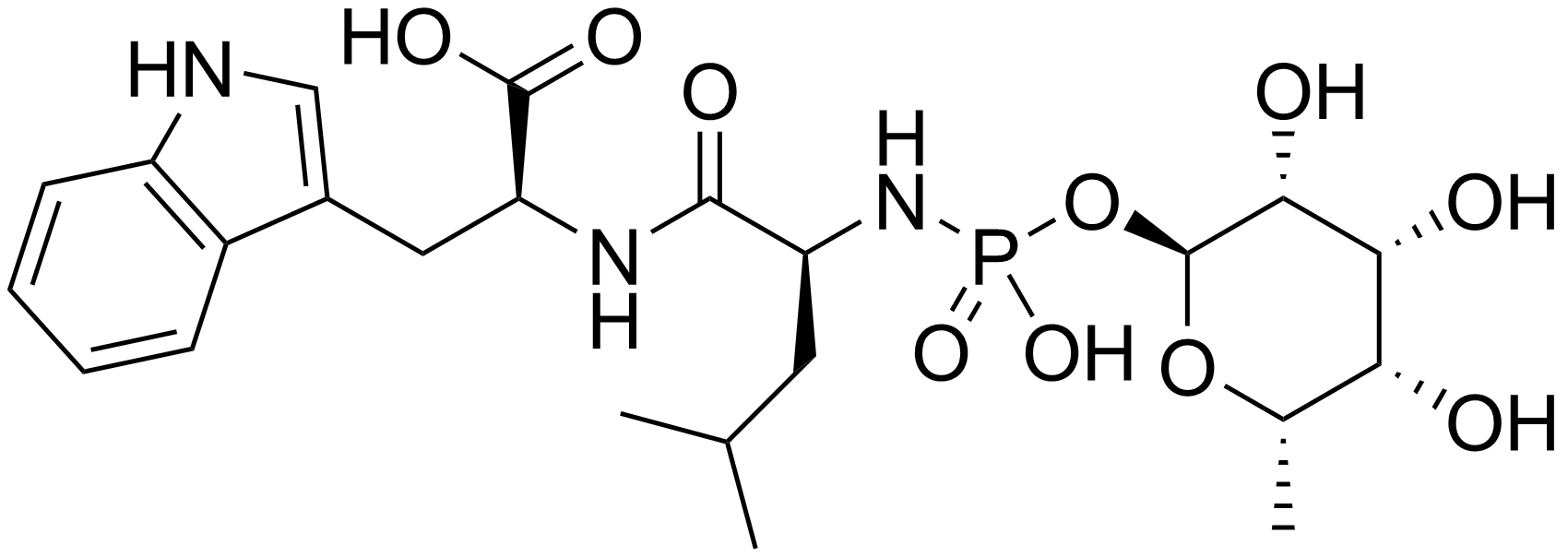 Chemical structure of Talopeptin